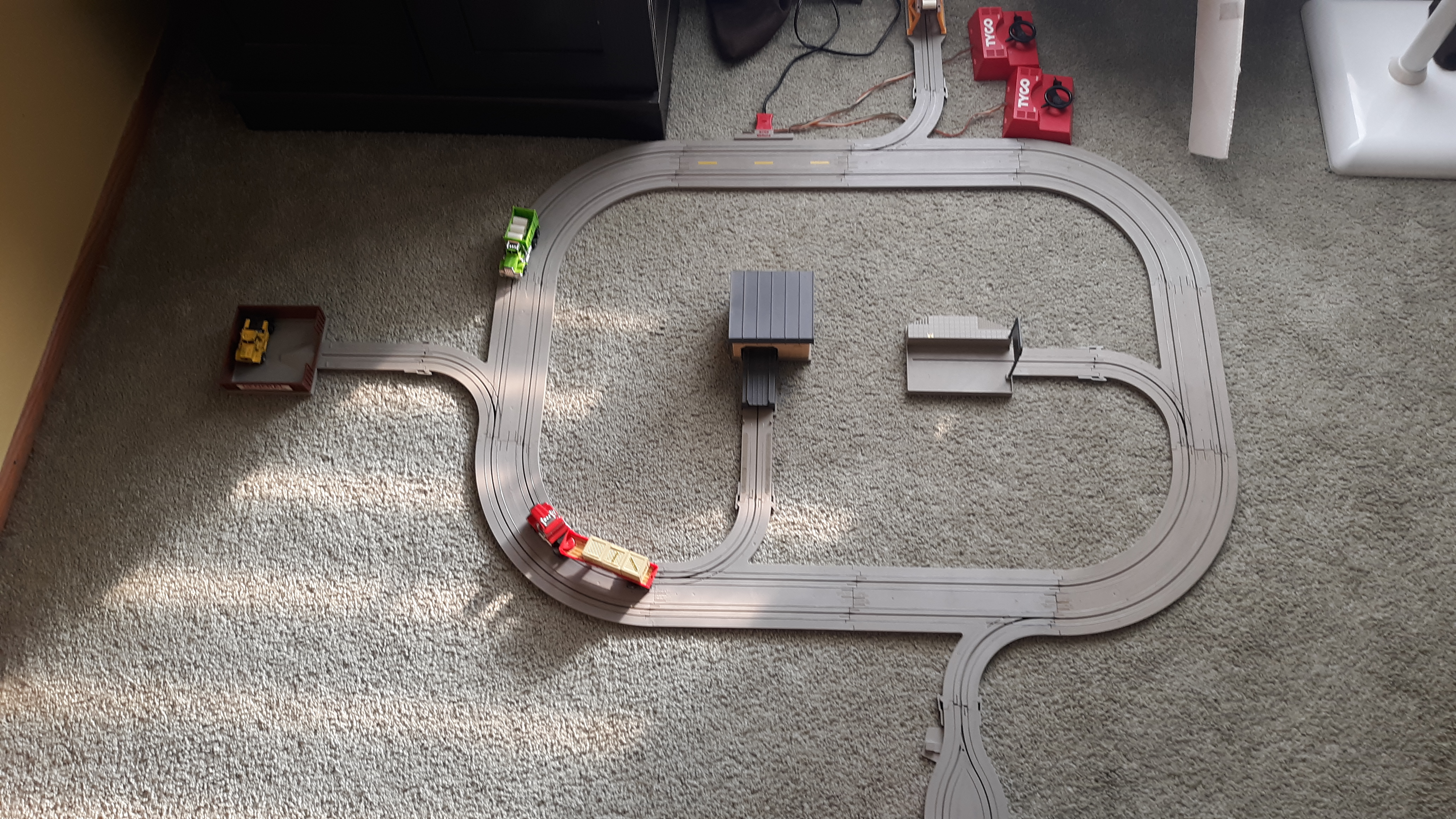 My basic track layout for US-1